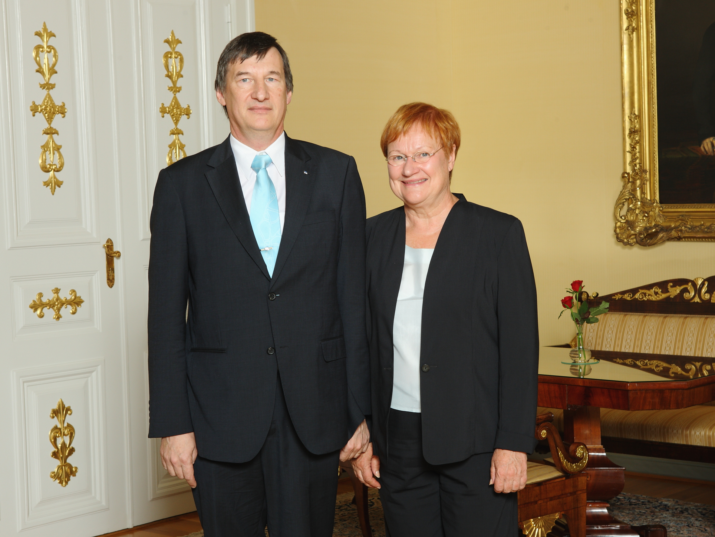 Estonian Ambassador to Finland Mart Tarmak Presents His Credentials to President of Finland Tarja Halonen